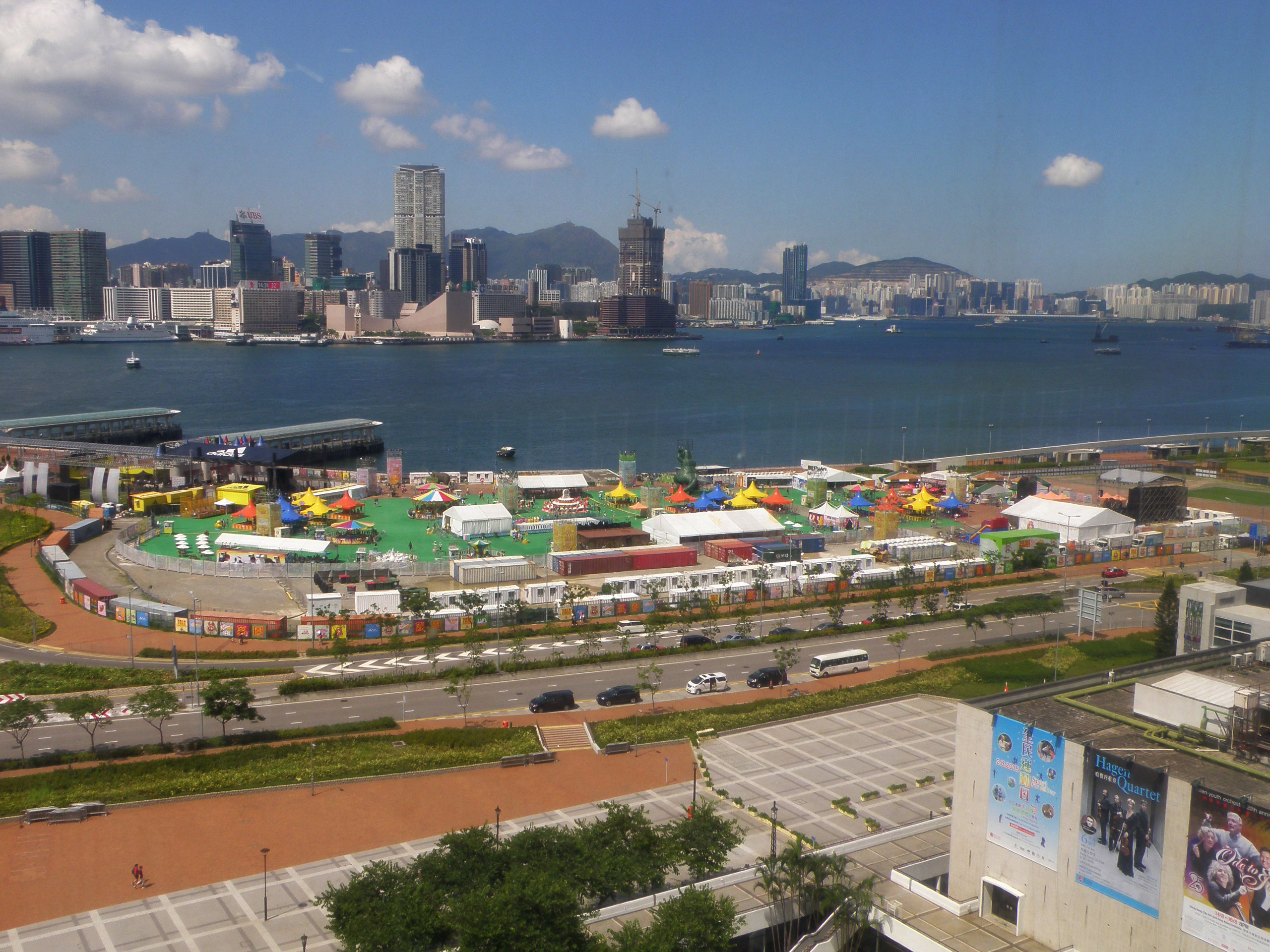 Lai Yuen Super Summer 2015 in Central, Hong Kong.